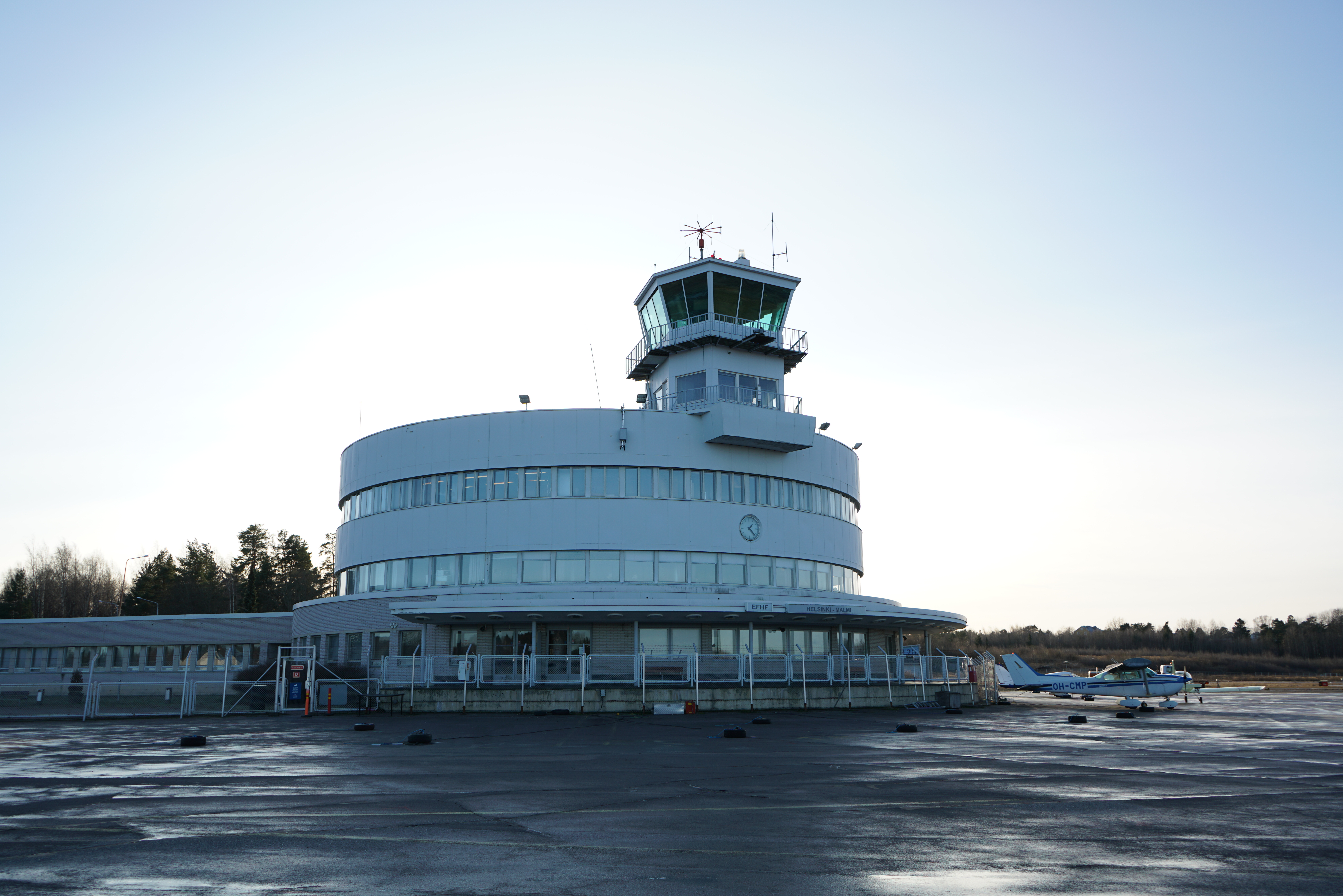 Malmi Airport round main building 2020-01-25